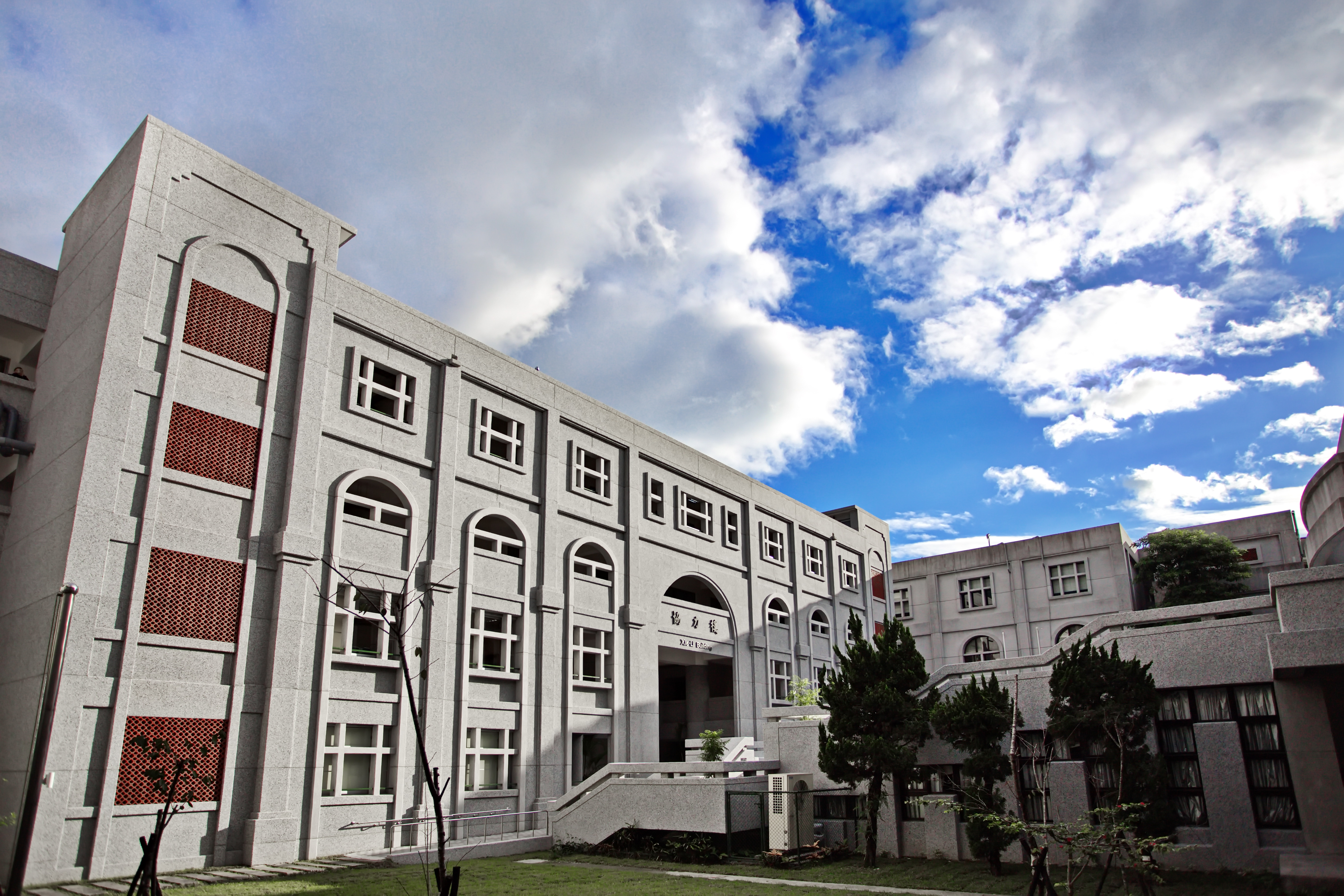 Xie Li Building, Tzu Chi University of Science and Technology, Taiwan.